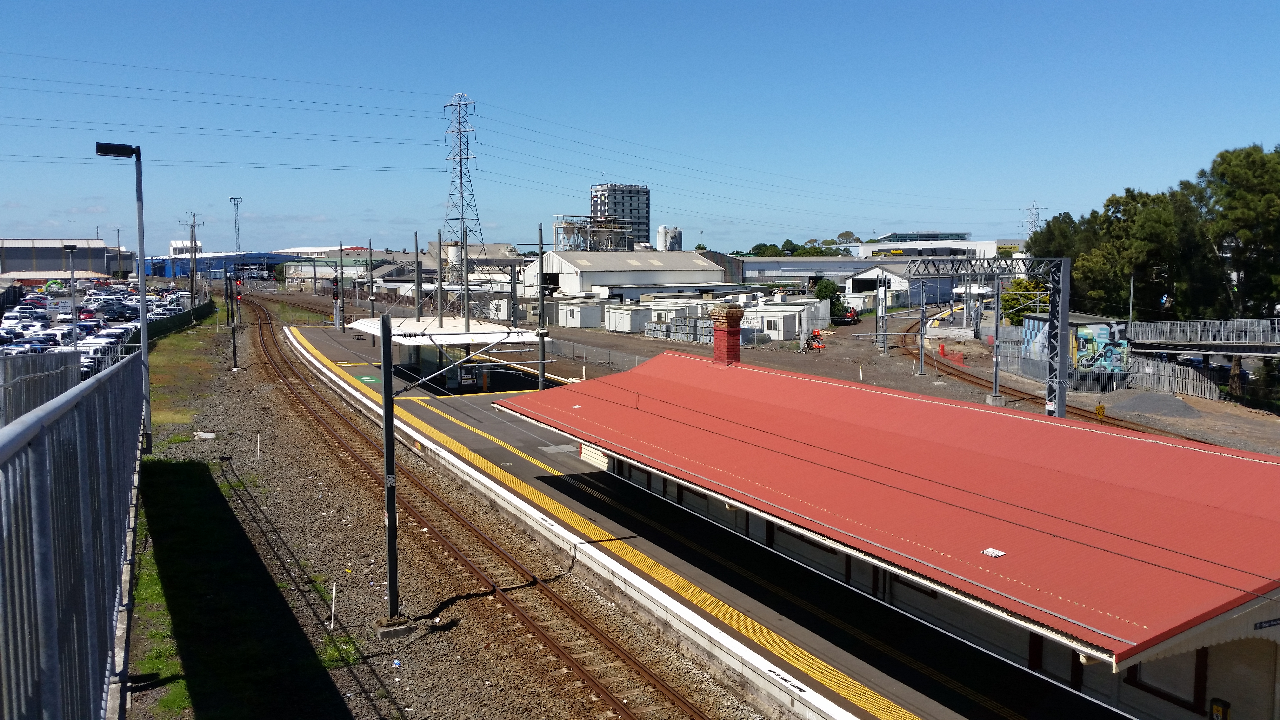 Penrose railway station in Auckland, New Zealand, looking approximately southbound from the pedestrian overbridge towards the Onehunga Branch line